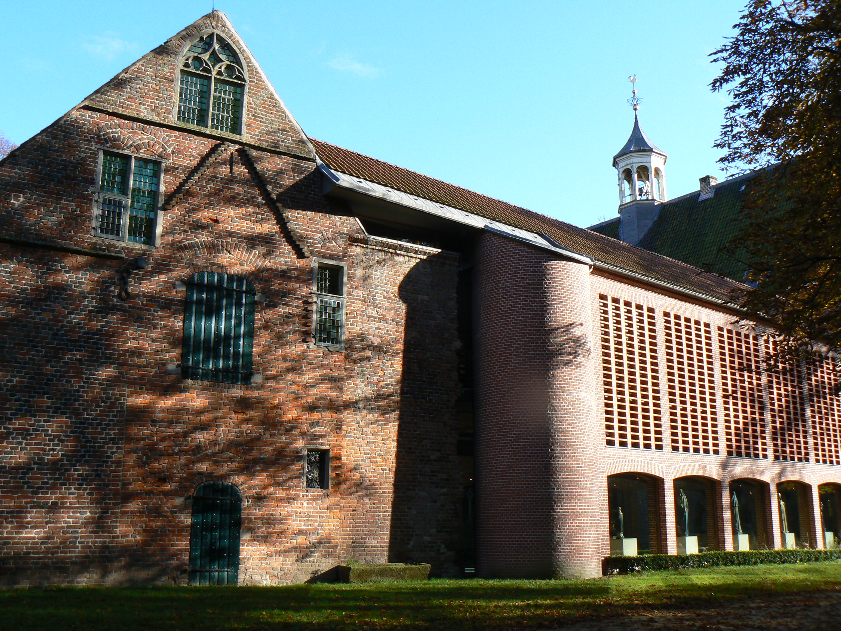 Klooster Ter Apel in Ter Apel/The Netherlands